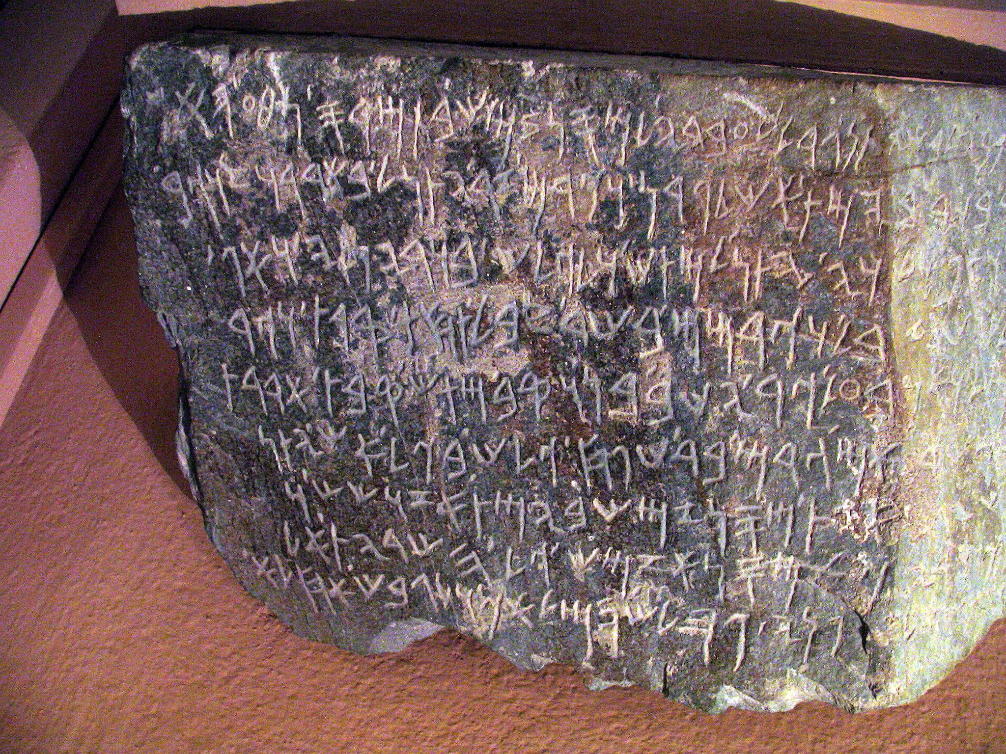 Phoenician inscription, Archeological museum of Alanya, Turkey. Known as KAI 287